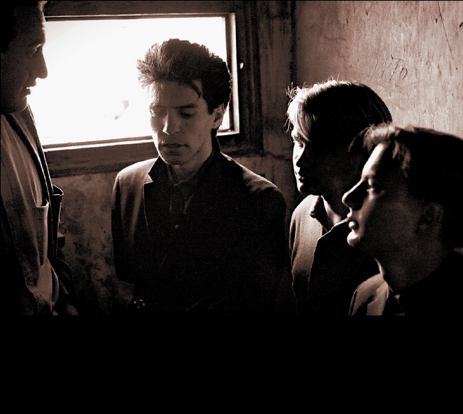 Décima Vícima